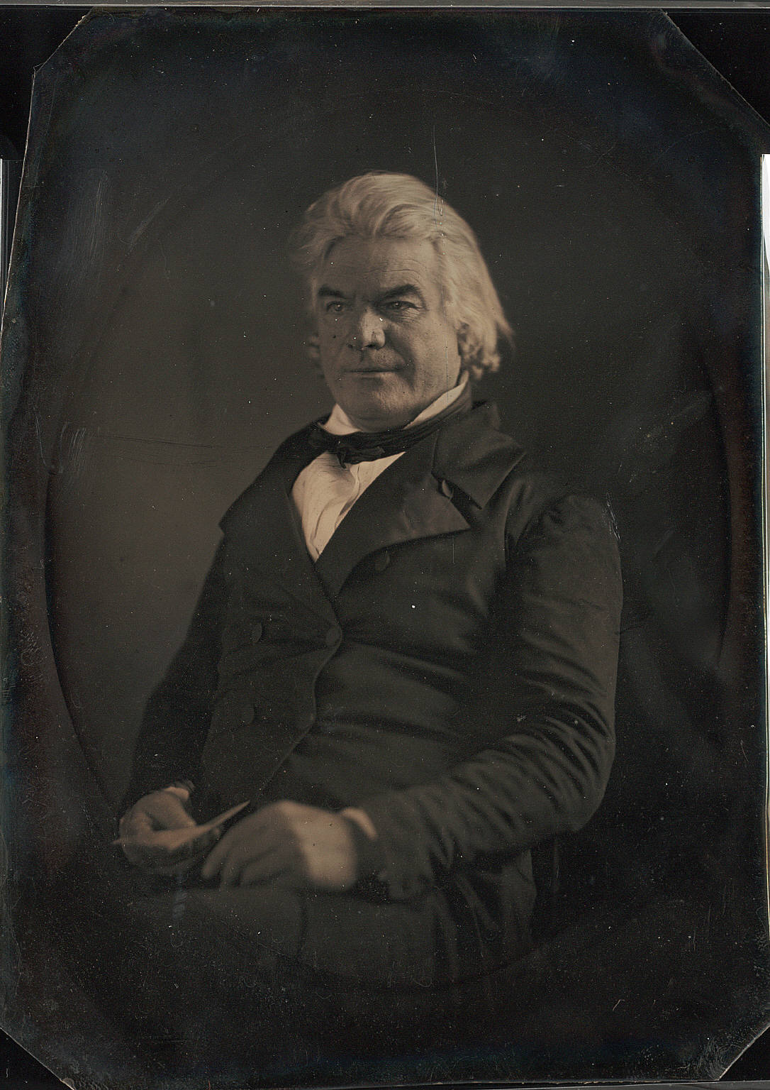 Daguerreotype portrait of South Carolina politician Andrew Pickens Butler by photographer Mathew Brady, taken at the United States Capitol at Washington, D.C., March 1849. Courtesy of the Beinecke Rare Book & Manuscript Library, Yale University.[1]